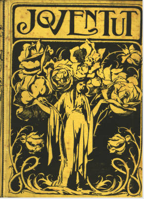 Coberta 3 gener 1901